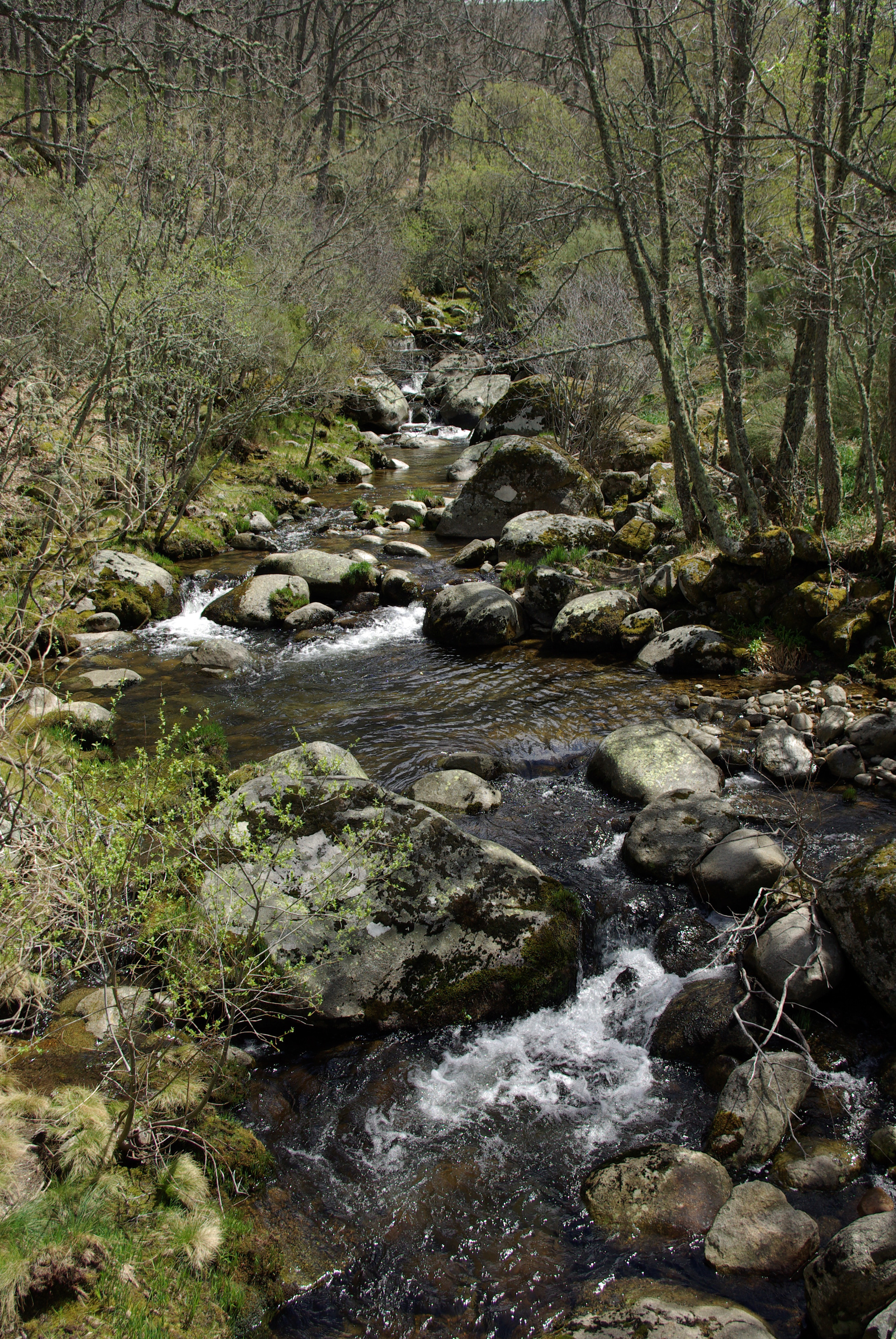 River Cuerpo de Hombre near Candelario (Salamanca, Spain)